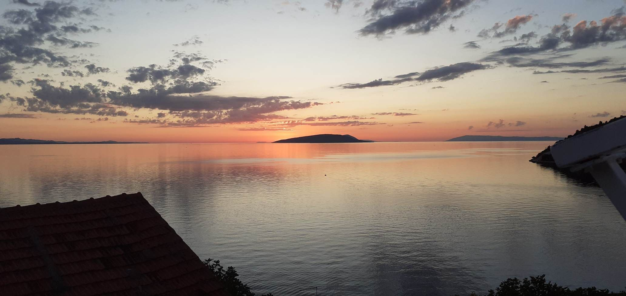 Sunset view on island of Hvar from Podaca, Croatia